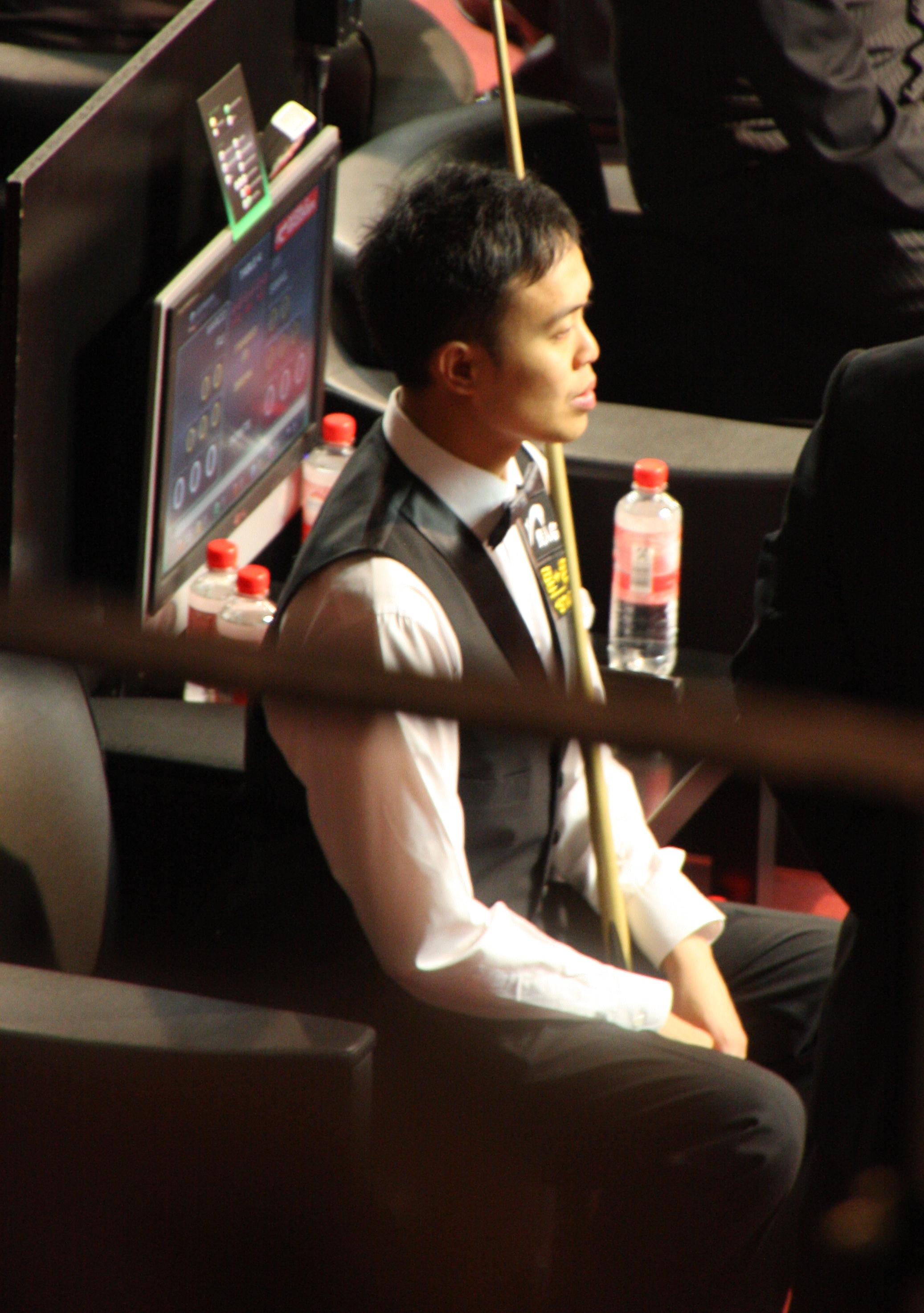 Snooker player Marco Fu at the en:2011 German Masters